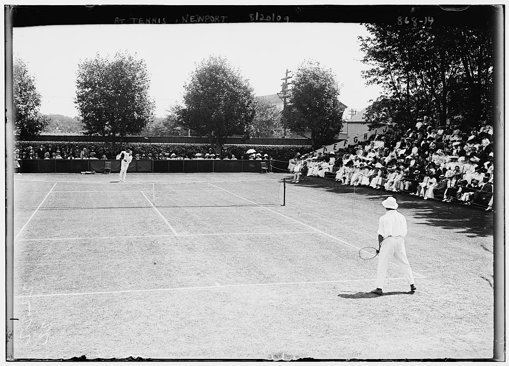 Tennis Players on Newport Casino Court during U.S. National Championships 8/20/09 (date created or published later by Bain)